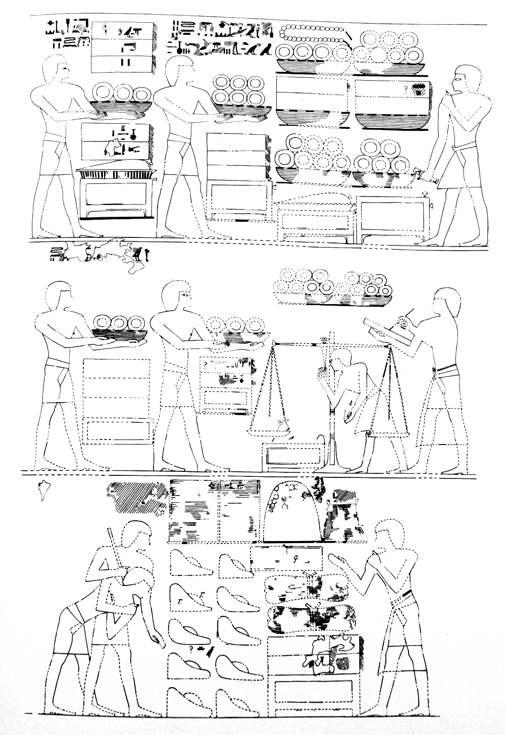 Scene from the Tomb of Rekhmira at Thebes, New Kingdom. The Hall, Eas Wall: Collecting of taxes from southern towns